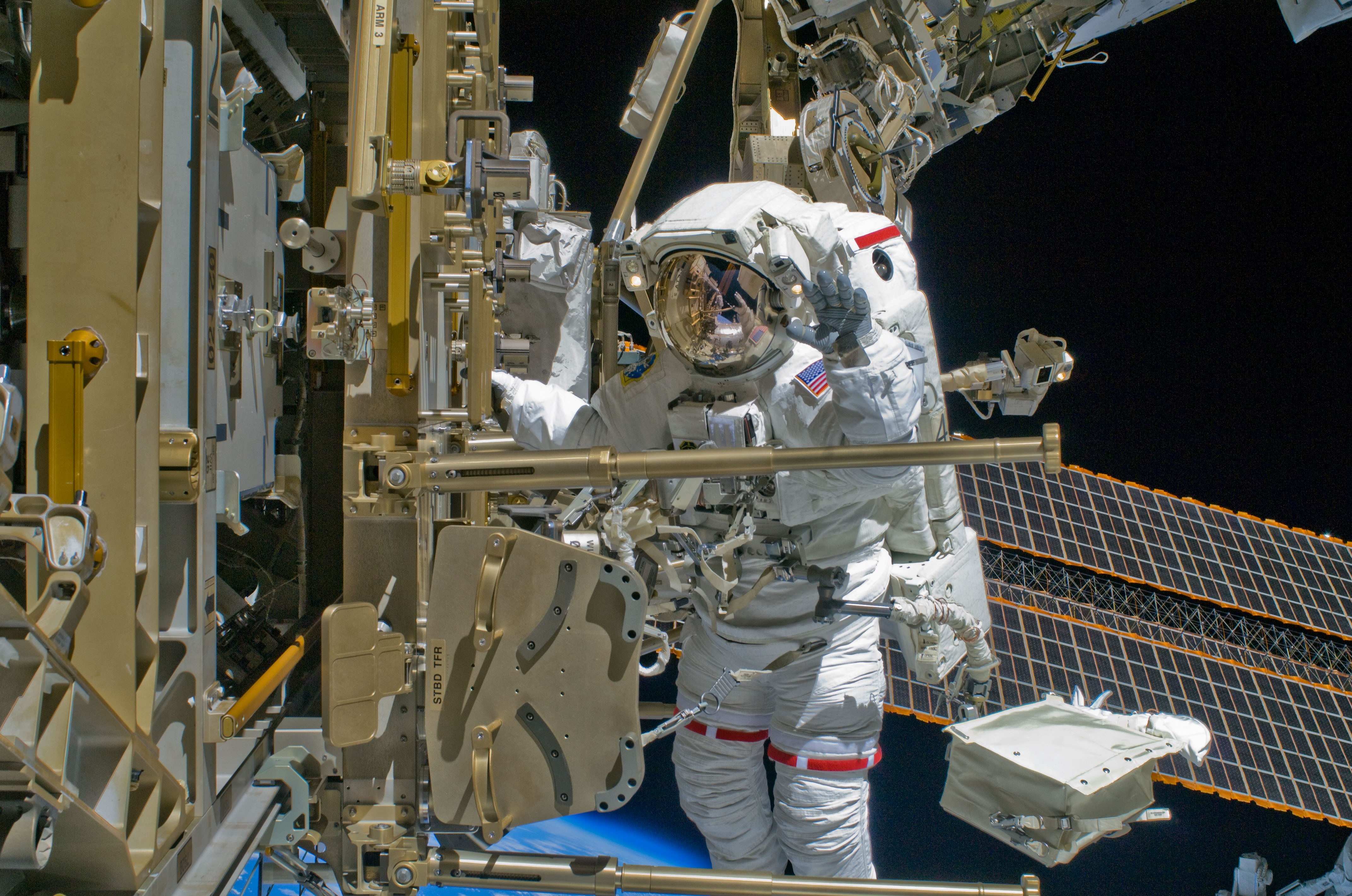 Astronaut Shane Kimbrough, STS-126 mission specialist, participates in the mission's second scheduled session of extravehicular activity (EVA) as construction and maintenance continue on the International Space Station. During the six-hour, 45-minute spacewalk, Kimbrough and astronaut Heidemarie Stefanyshyn-Piper (out of frame), mission specialist, continued the process of removing debris and applying lubrication around the starboard Solar Alpha Rotary Joint (SARJ), replaced four more of the SARJ's 12 trundle bearing assemblies, relocated two equipment carts and applied lubrication to the station's robotic Canadarm2.